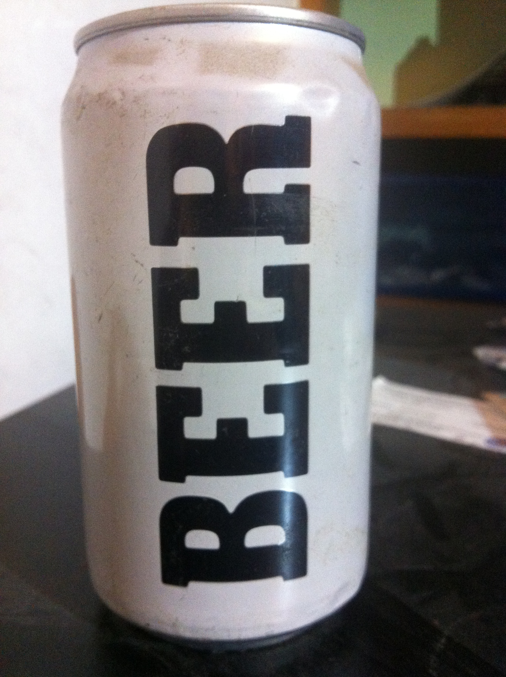 A can from General Brewing Company, with the plain label BEER on it.